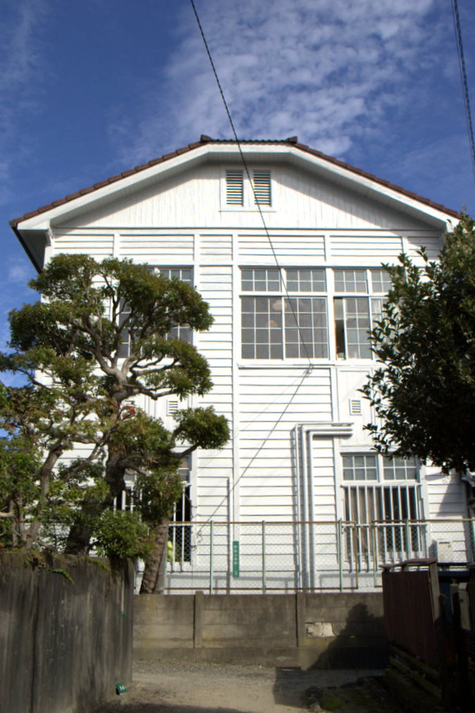 Shusenkan in Higashihiroshima, Hiroshima pref., Japan.